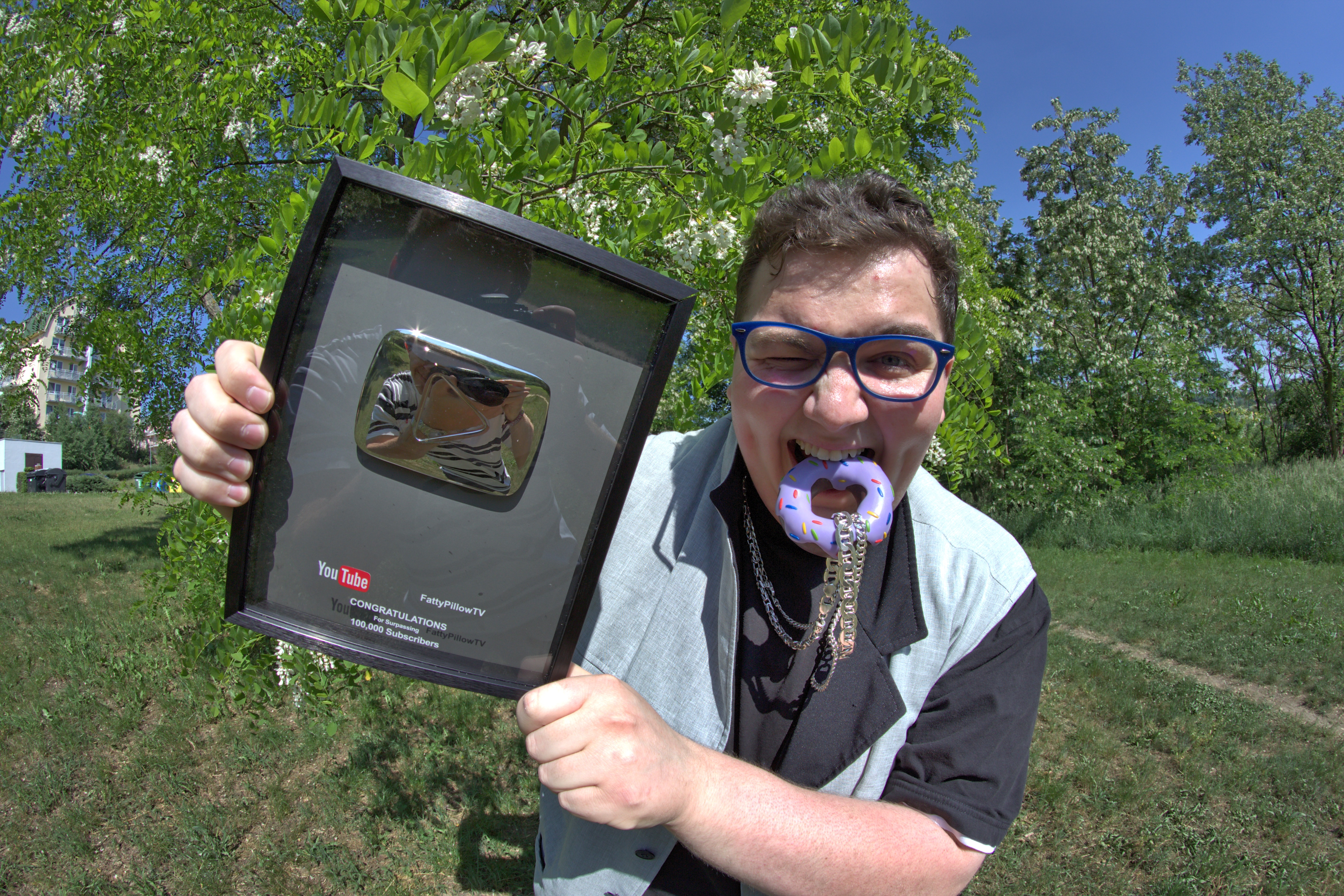 FattyPillow and YouTubeButton.